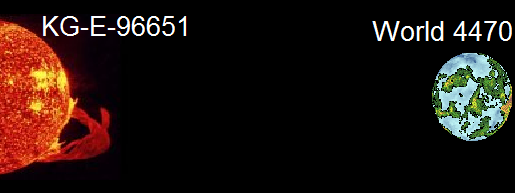 Diagram of the World 4470 Solar System, from the 1990s Hainish Cycle by Ursula K LeGuin